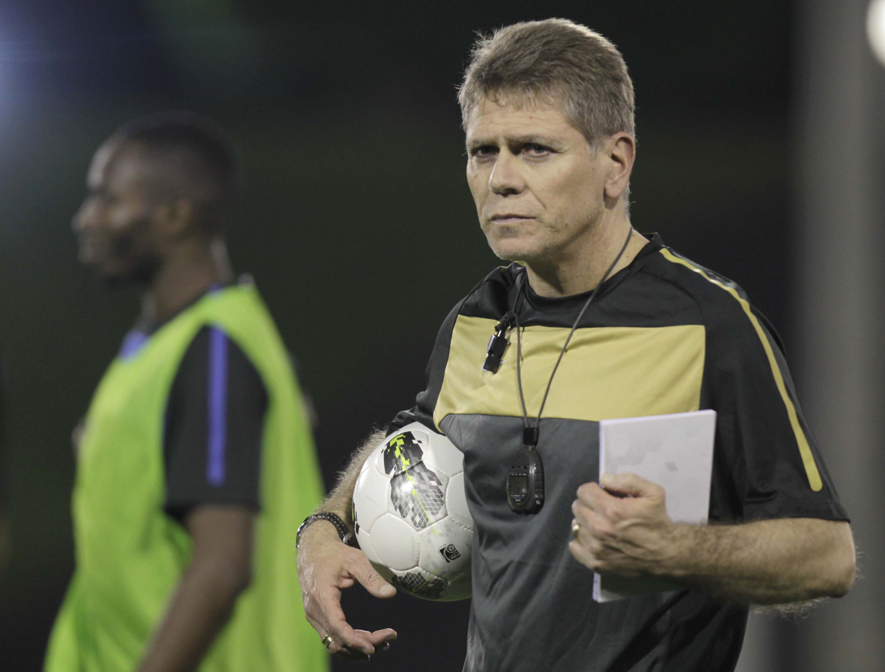 Qatar national team's Brazilian coach Paulo Autuori during a team training session. Picture by AK Bijuraj